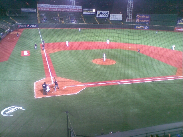 1st game after renovation